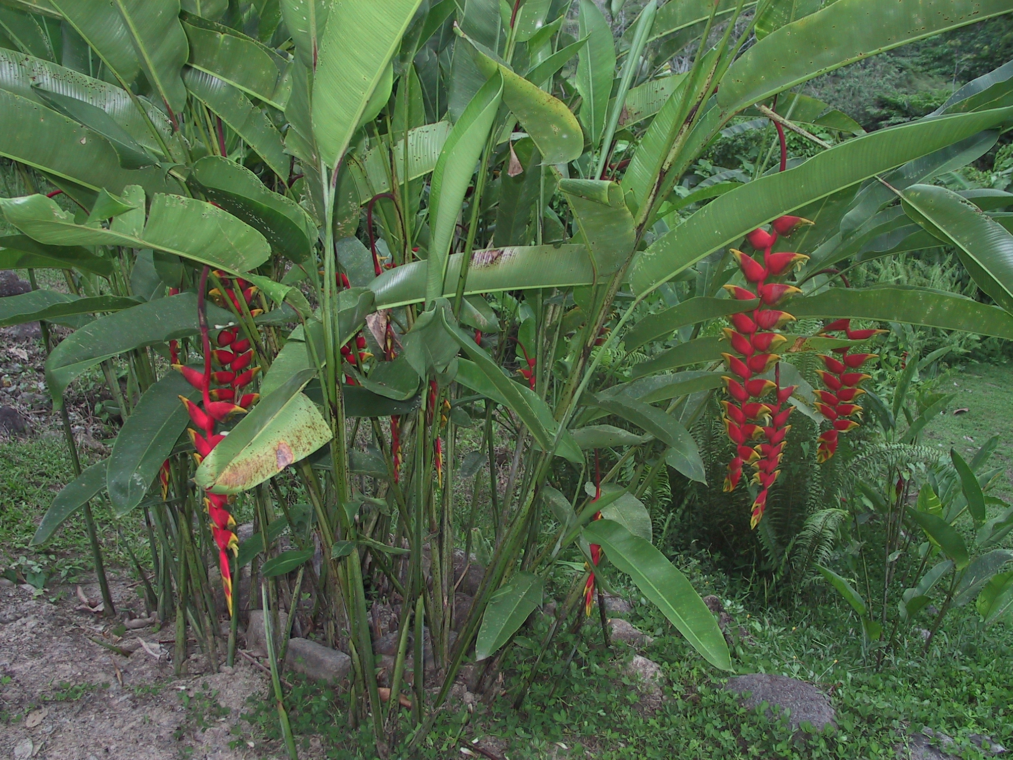 Description: Heliconia var. pogonantha, Costa Rica (beside a lodge, Atlantic area) Source: self made Date: 20021103 Author = --Ruestz 20:20, 5 June 2006 (UTC)